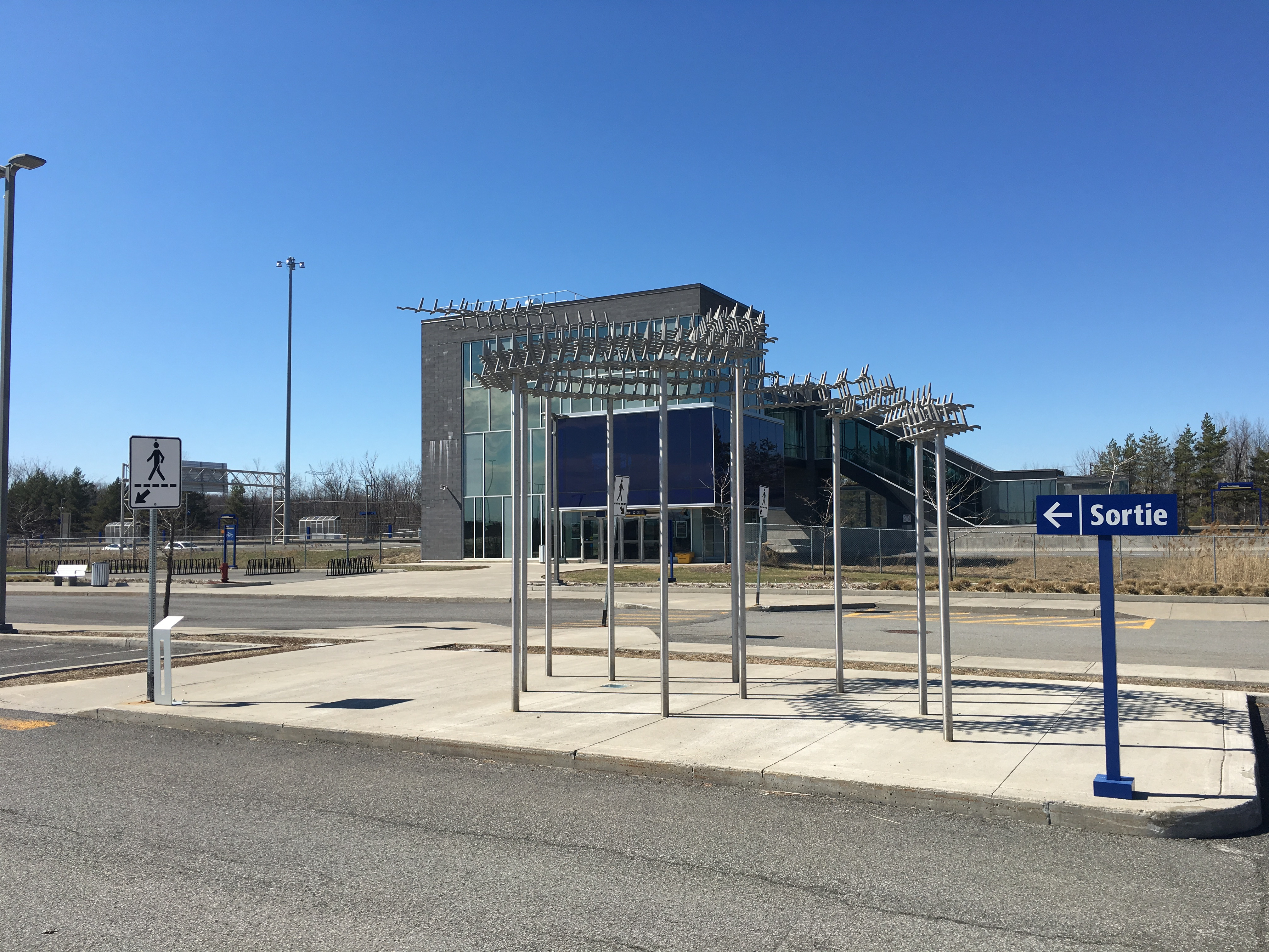 Terrebonne (exo) train station